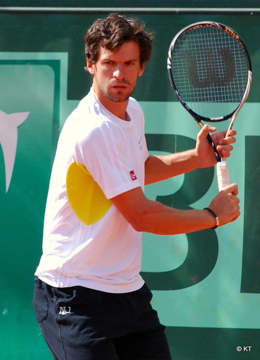 Petzschner on the practice court with doubles partner Tommy Haas. At the 2011 French Open